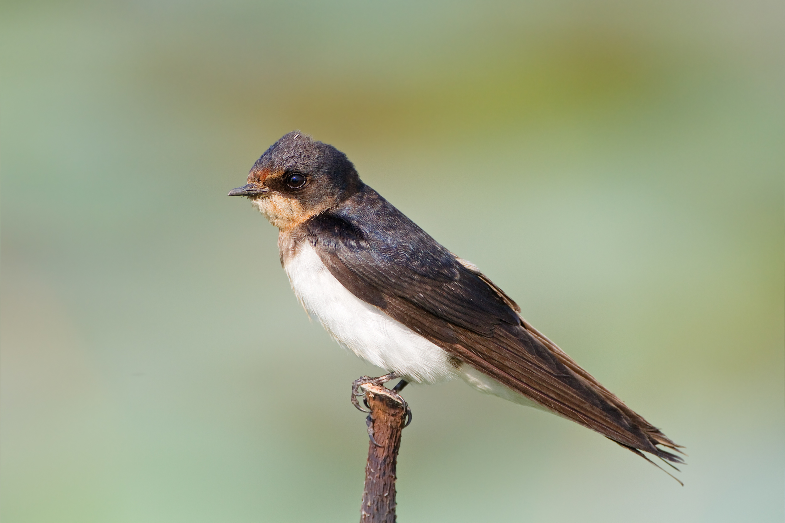 Barn Swallow (Hirundo rustica), Bueng Boraphet, Phra Non, Nakhon Sawan, Thailand